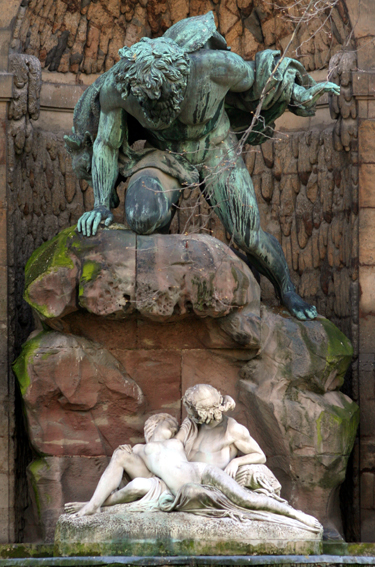 Galatea and Acis found out by Polyphemus the Cyclops, statue in the Jardin du Luxembourg, at the Médicis Fountain. Sculptor: Auguste Ottin.